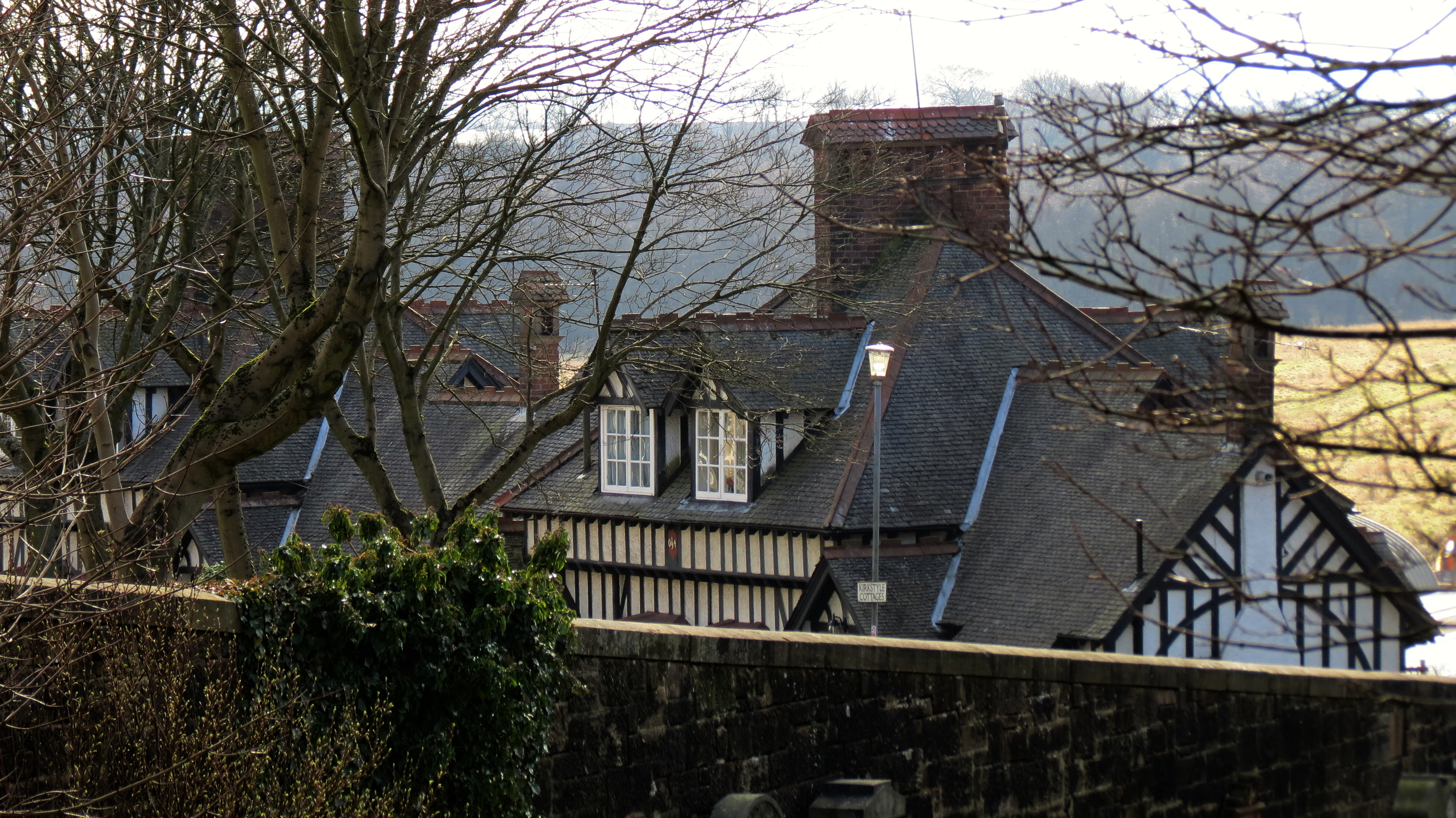 Kirkshaws Road, Kirkstyle Cottages